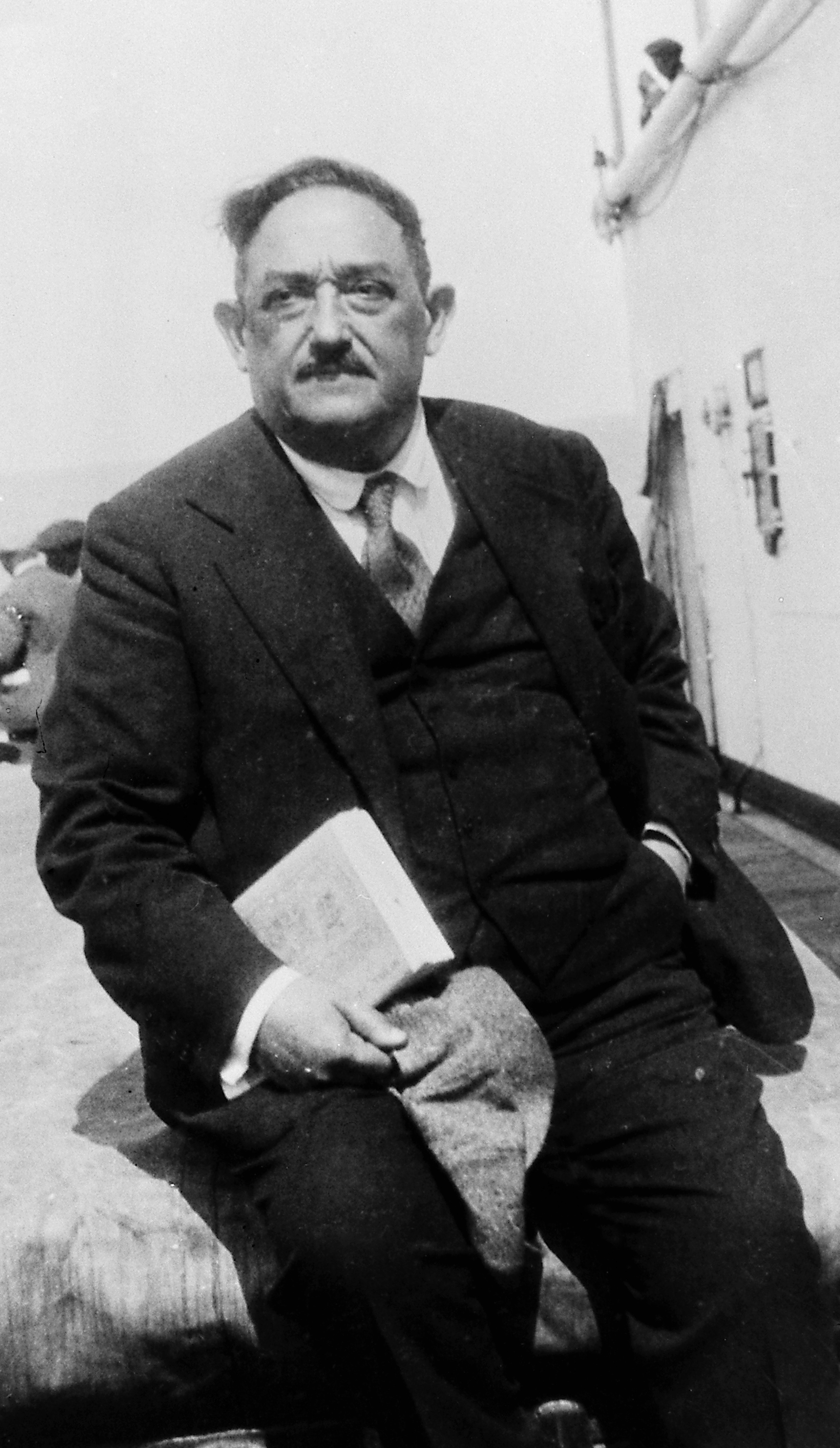 Portrait of Filippo Botazzi, seated on bollard Iconographic Collections Keywords: Filippo Botazzi